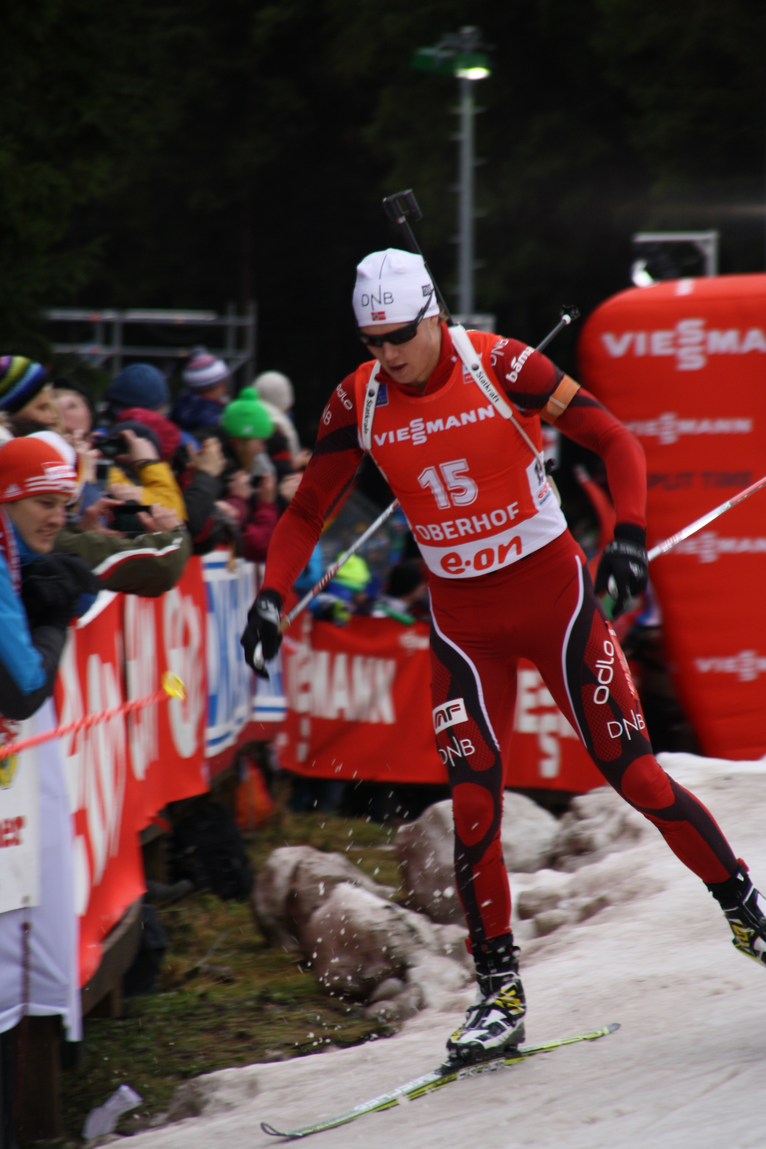 Biathlon World Cup Oberhof 2014 - Mens Pursuit